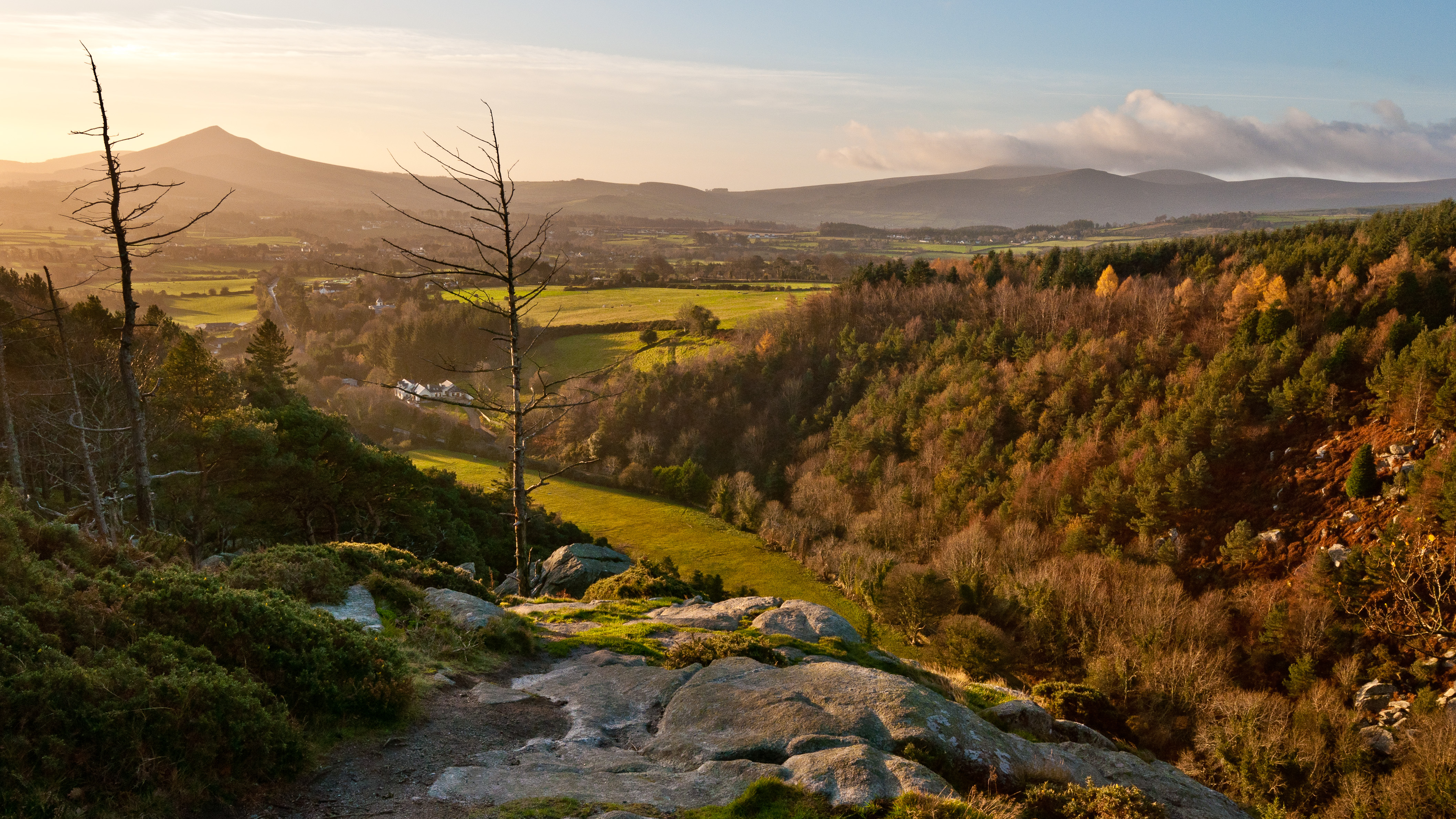 View of The Scalp from the summit of Barnaslingan Hill, looking south towards the Great Sugar Loaf mountain.